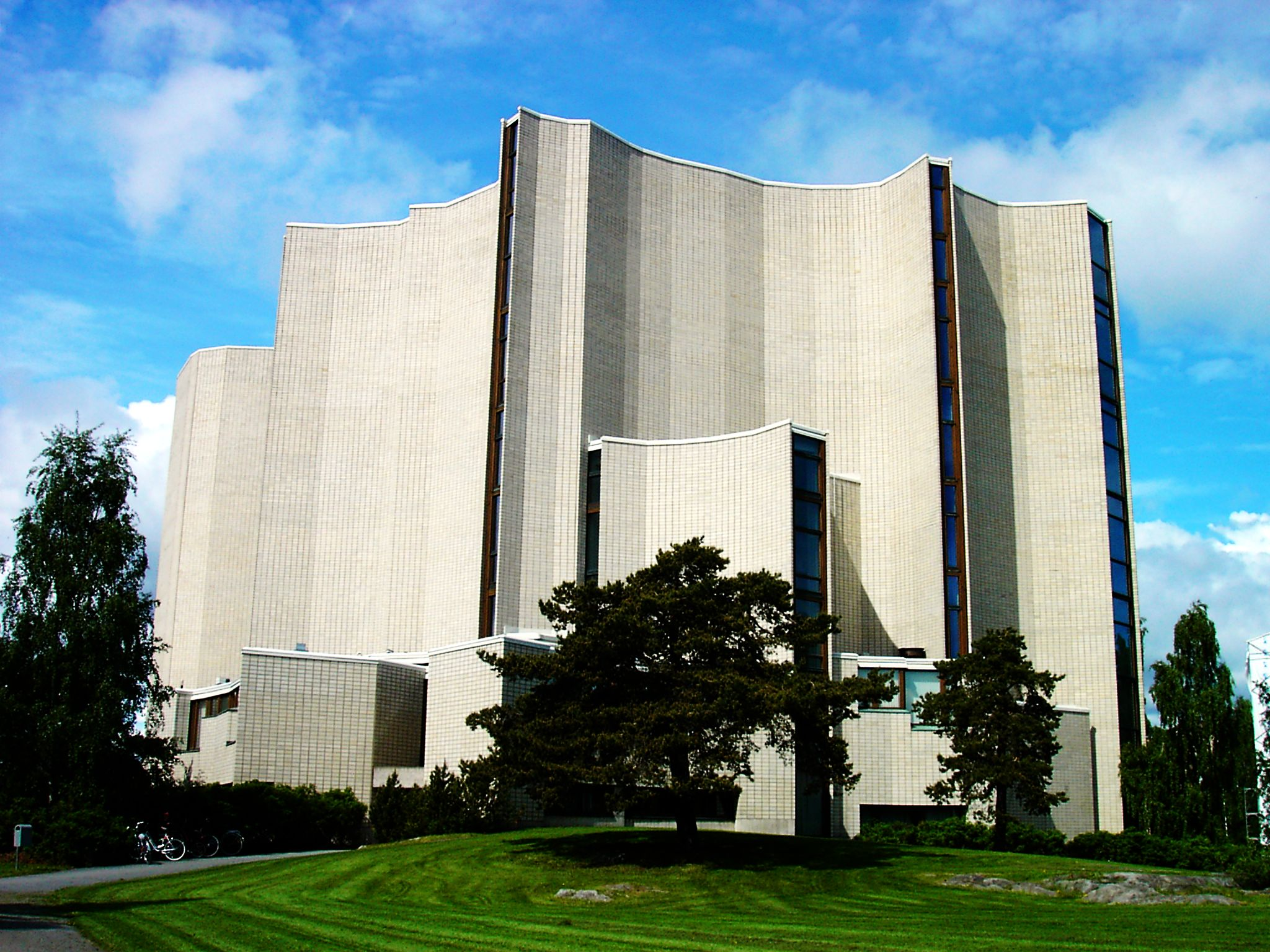 Picture of Kaleva Church in Tampere, Finland. View from the park "behind" the church.